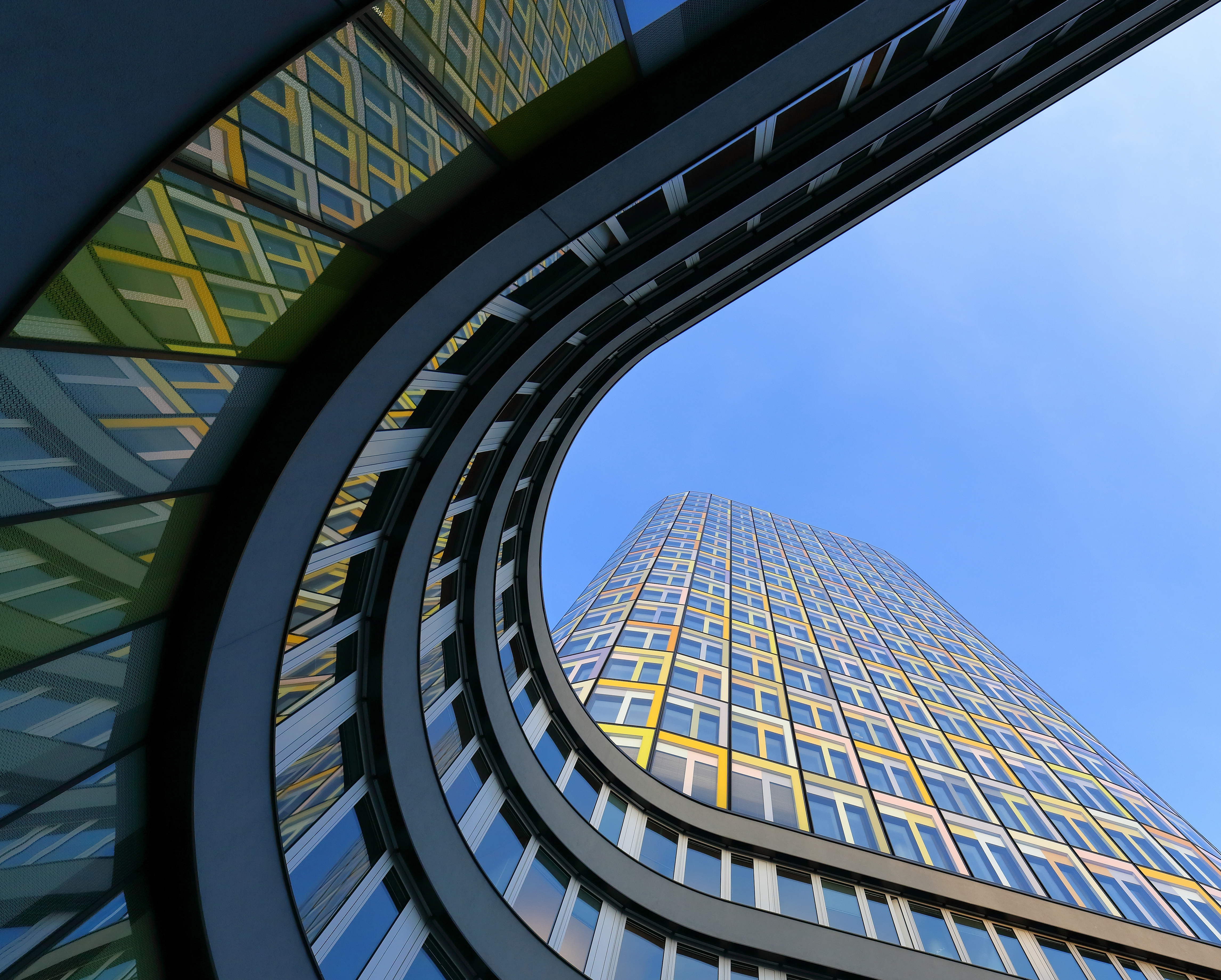 The main office complex of the ADAC in Munich was designed by Sauerbruch Hutton and opened in 2012.